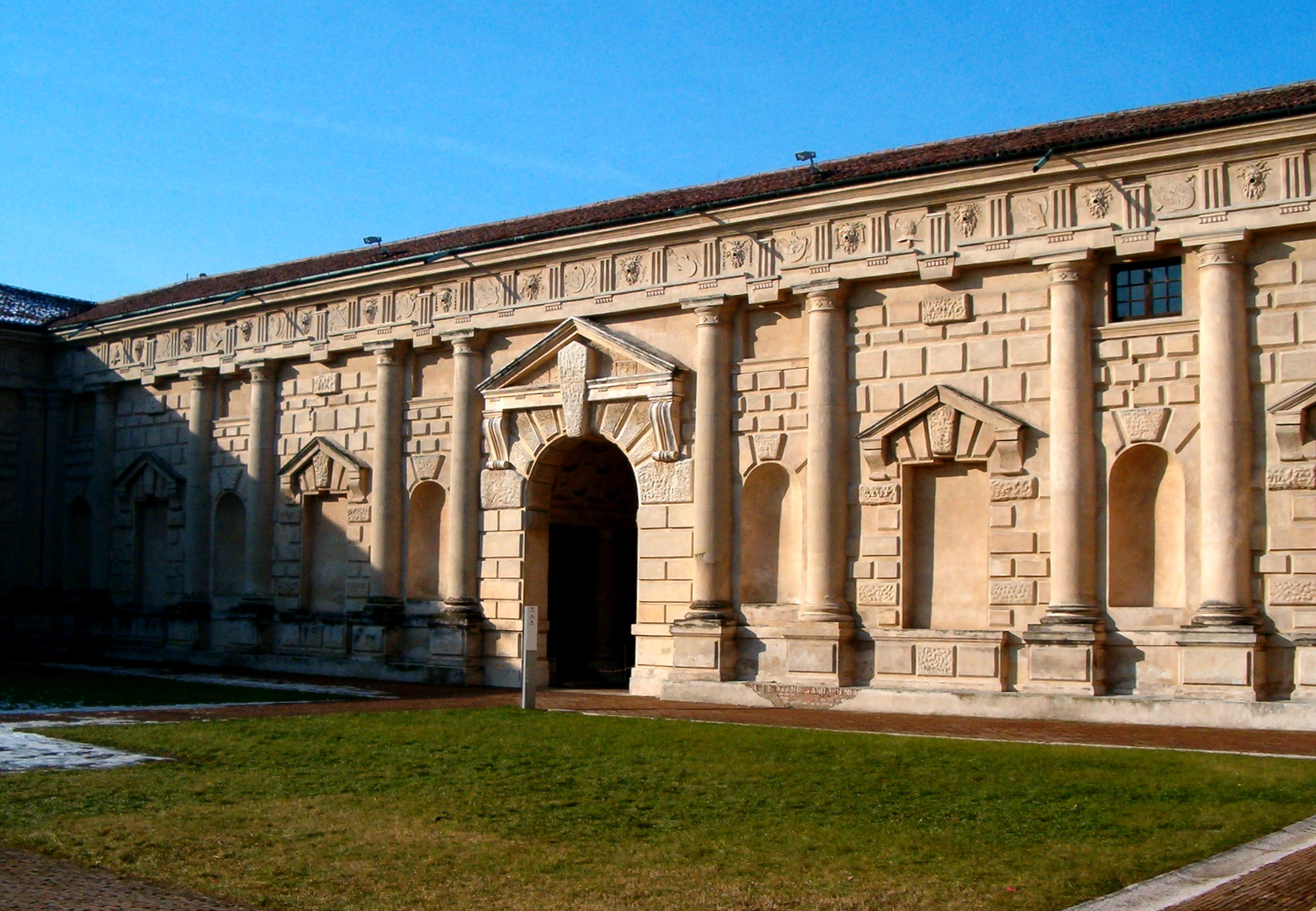 Palazzo Te in Mantova, Italy - Photo taken by Marcok of wikipedia on January 7, 2006